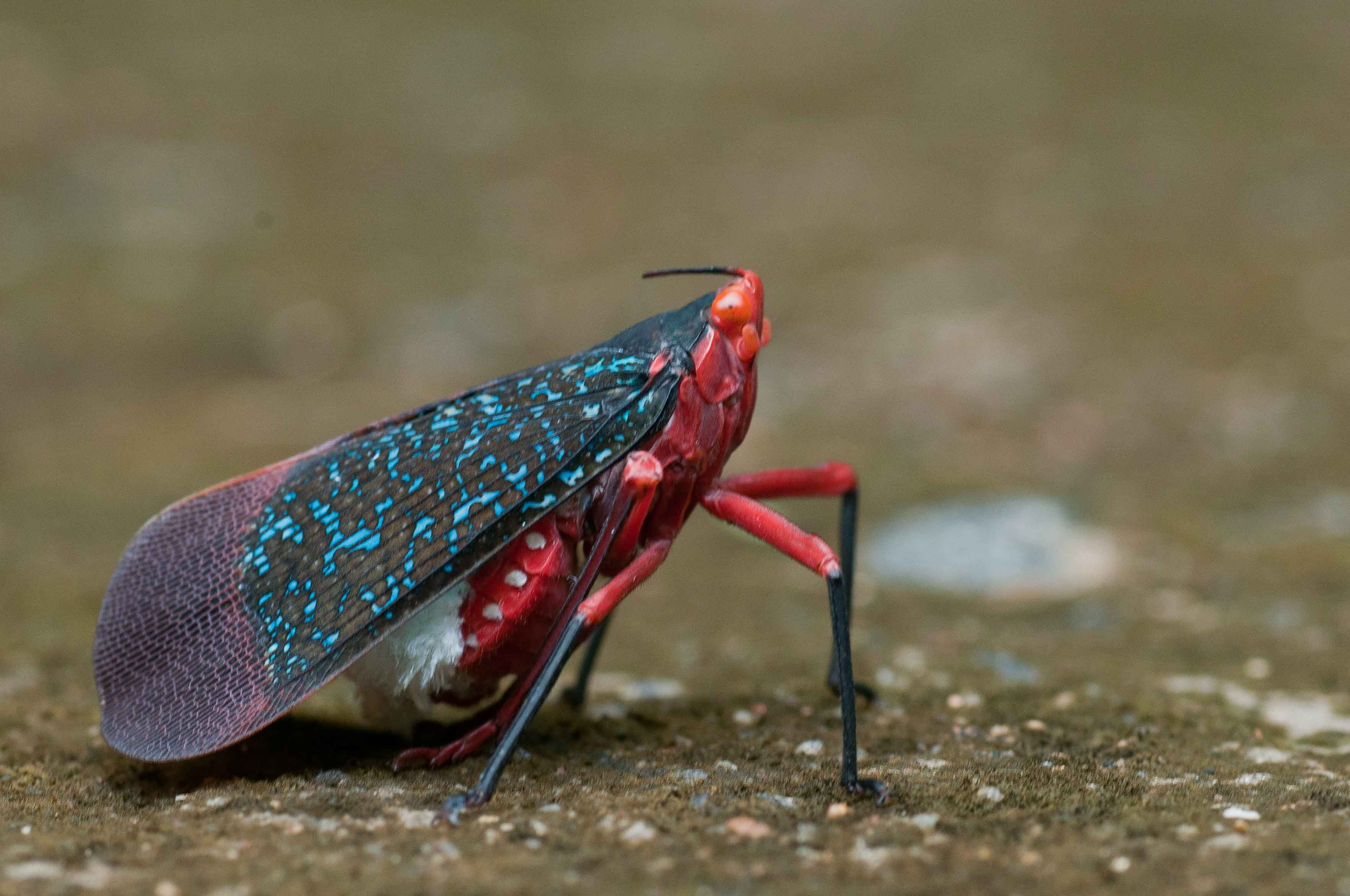 Kalidasa lanata, Fulgoridae. Location - unspecified - India